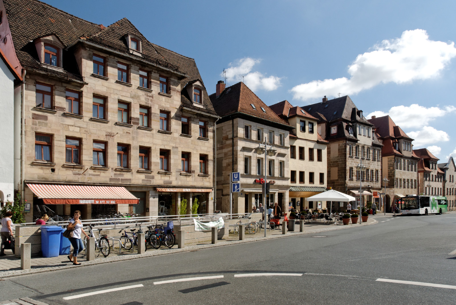 Houses Königstraße 69 to 81 in Fürth, Germany